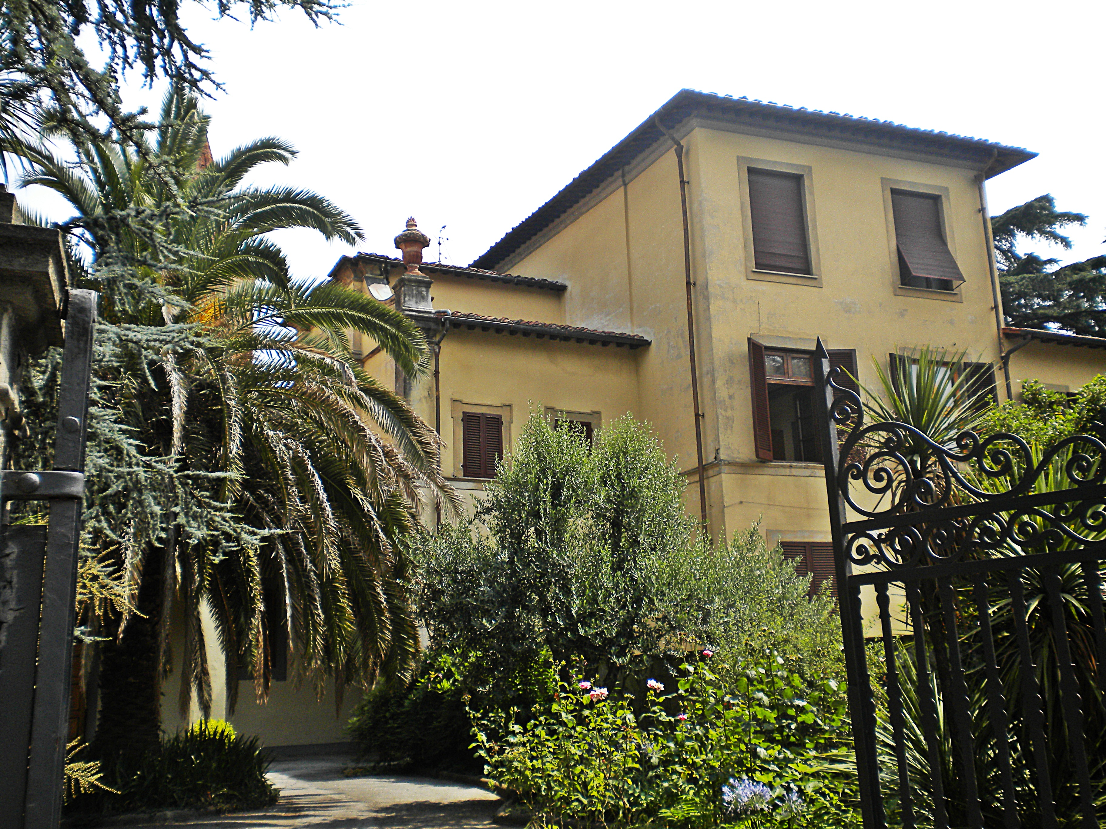 Diocese Seminary-facade